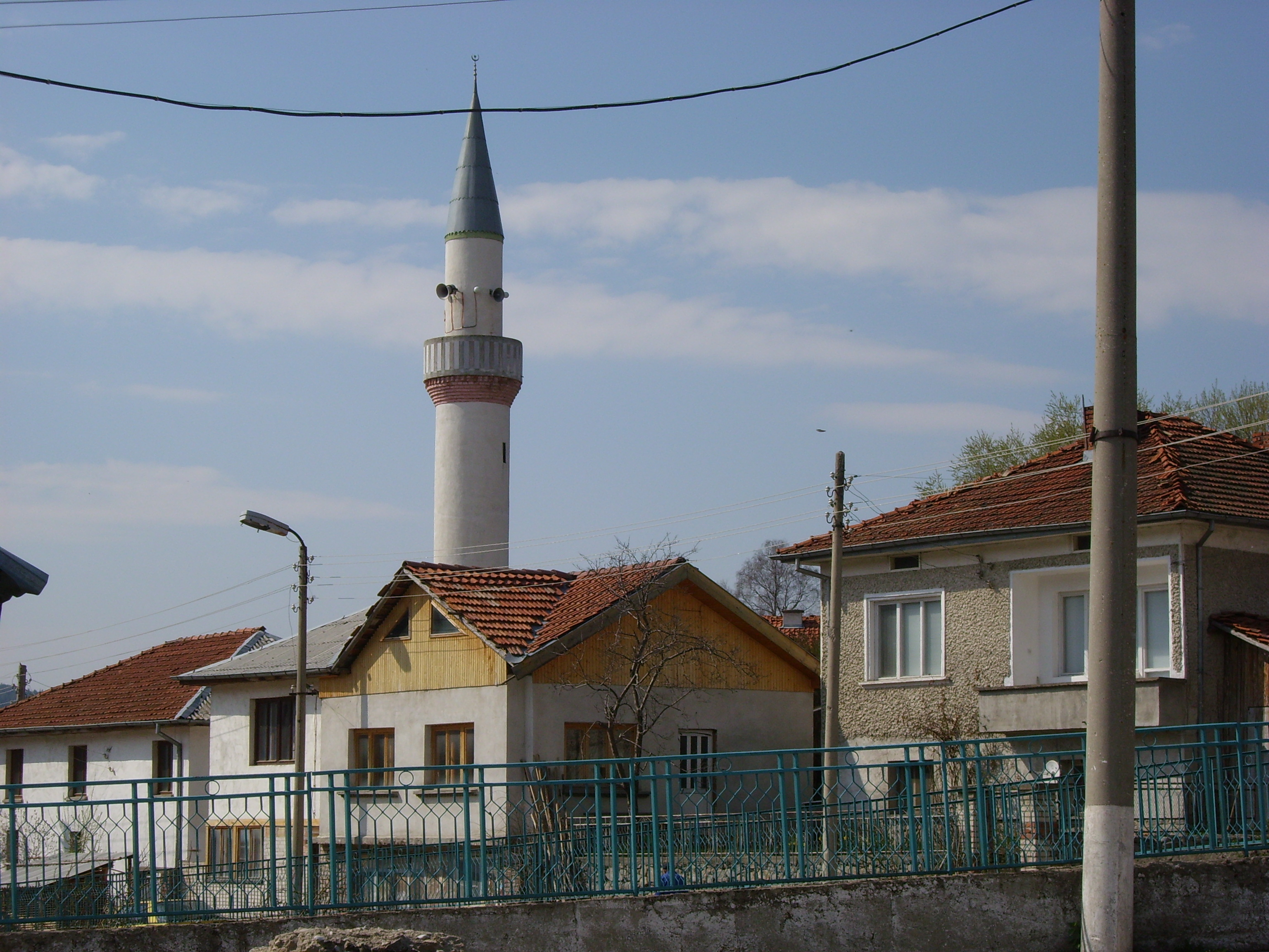 The mosque the village of Kasak.